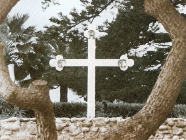 Founders' Cross at Mount Ecclesia: the initials C.R.C. represent the symbolical name of our great Head, and designate our emblem as Christian Rose Cross.